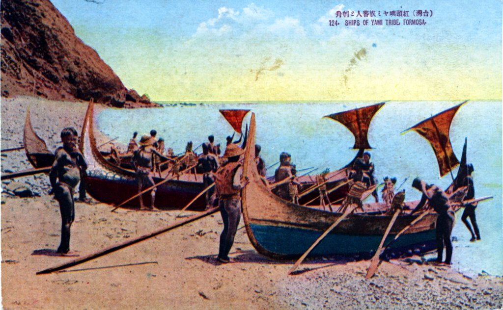 Ships of Yami tribe, Formosa